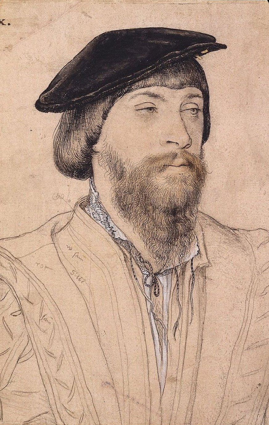 Portrait of Thomas, Lord Vaux. Black and coloured chalks, pen and Indian ink, metalpoint on pink-primed paper, 27.9 × 29.5cm, Royal Collection, Windsor Castle. This is a rectangular detail of the irregularly cut drawing. Thomas Vaux, 2nd Baron Vaux of Harrowden, was a poet, the author of posthumous verses in Tottel's Miscellany, 1557. He served as Captain of the Isle of Jersey. Holbein drew a later portrait of him. He also drew Vaux's wife, Lady Elizabeth.